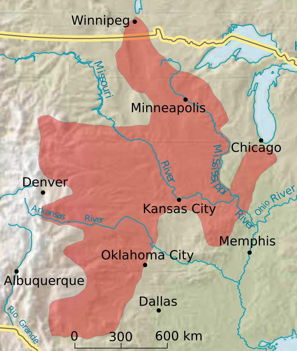 range of Geomys bursarius (Plains Pocket Gopher)